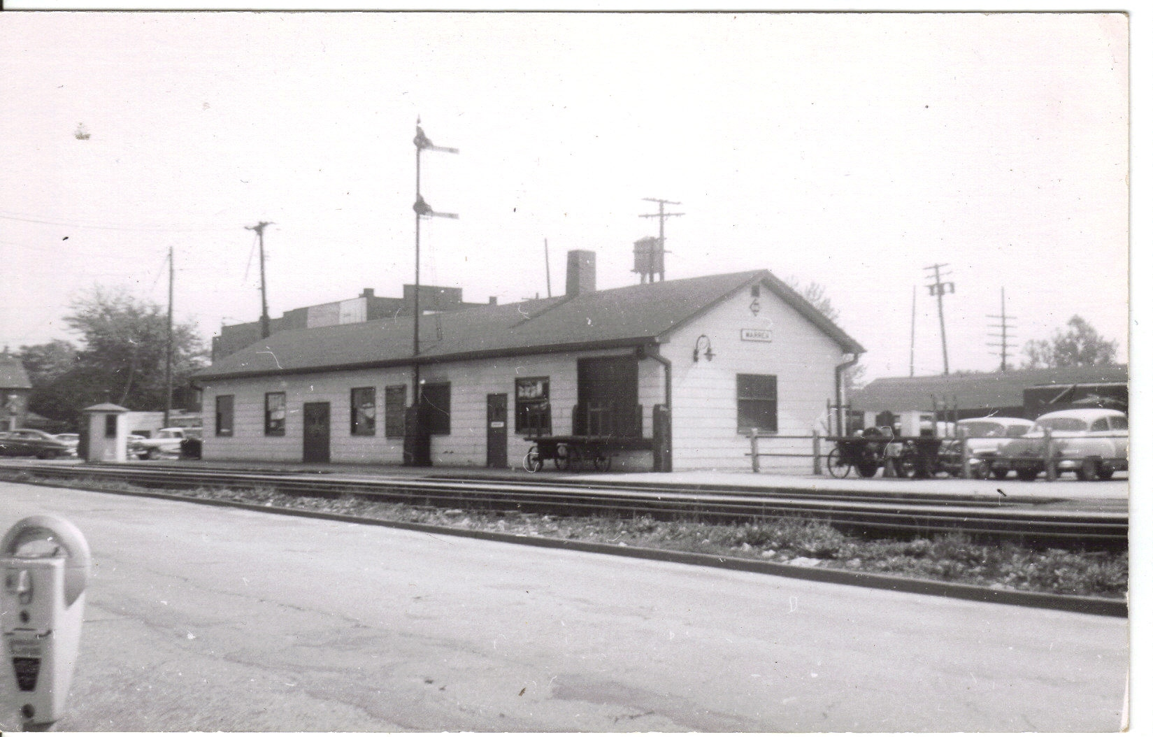 The former Erie Railroad Warren station in a black and white 1960s photograph. The station depot was demolished in 1964.